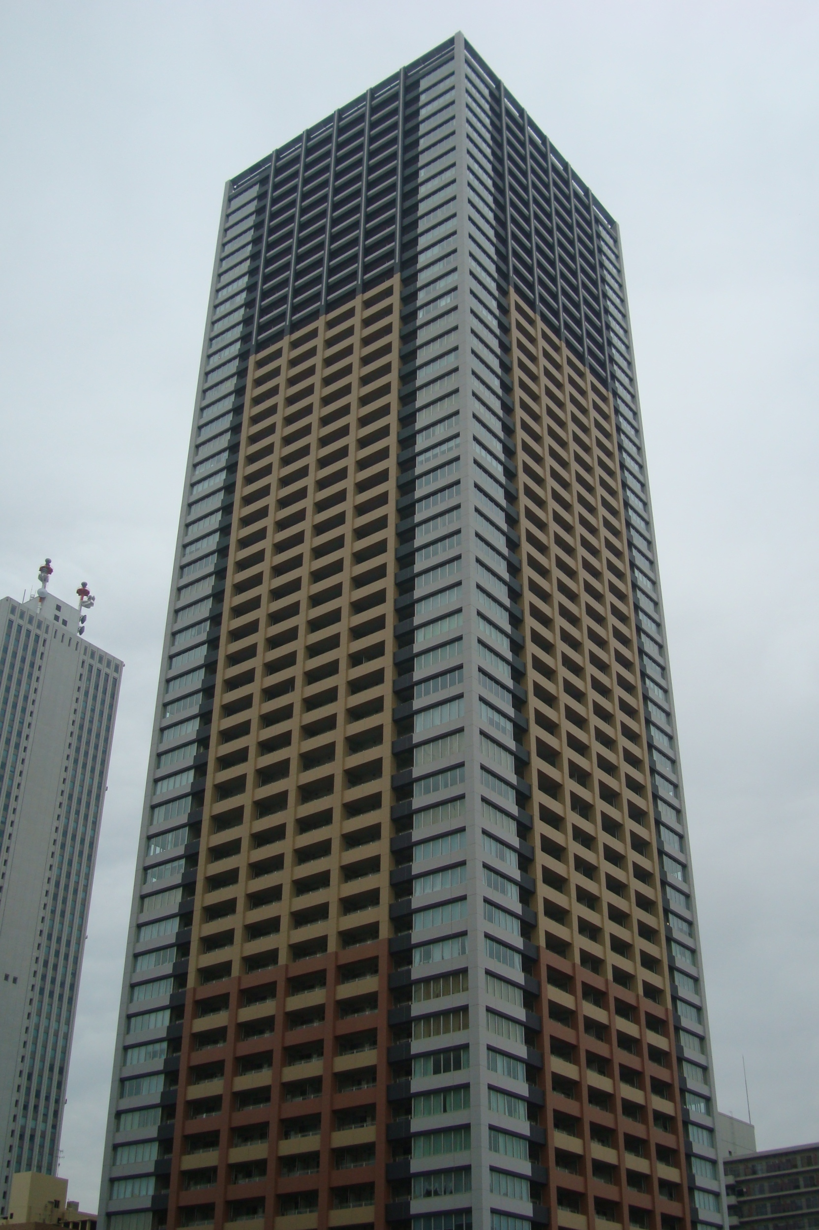 Owl Tower in Ikebukuro. The tallest apartment building in Tokyo.